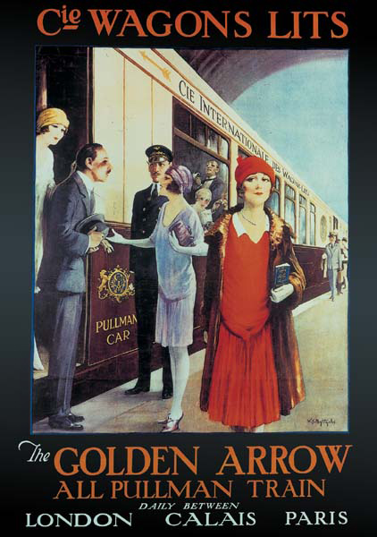 Cie Wagons-Lits, The Golden Arrow (train), All Pullman Train, Daily between London/Calais/Paris